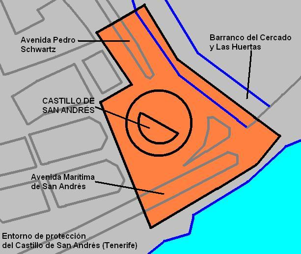 Entorno de protección del Castillo de San Andrés (Tenerife) como Bien de Interés Cultural. Según el Decreto por el cual se declara el entorno del Castillo de San Andrés como Bien de Interés Cultural. Gobierno de Canarias.